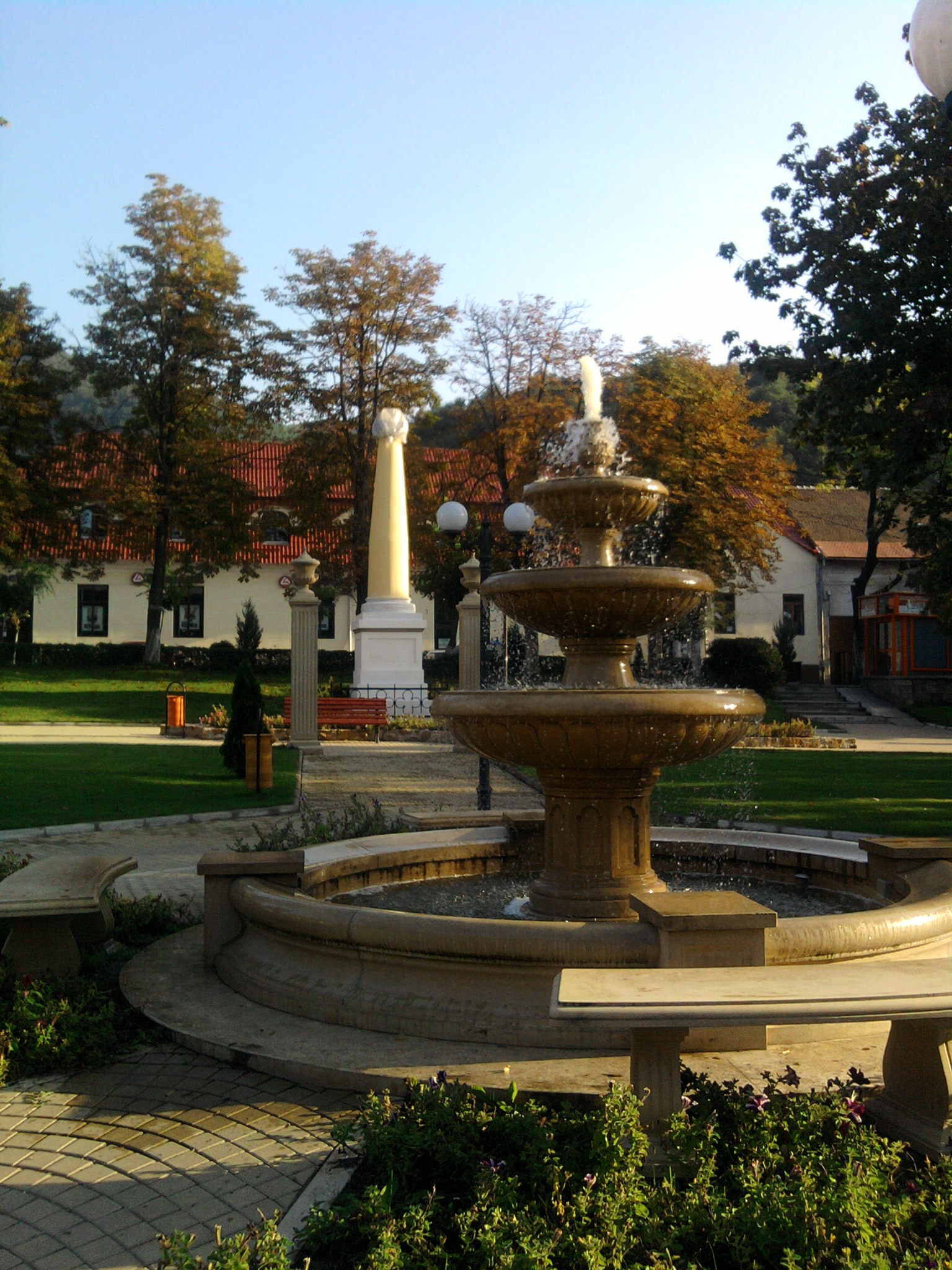 Şimleu Silvaniei park